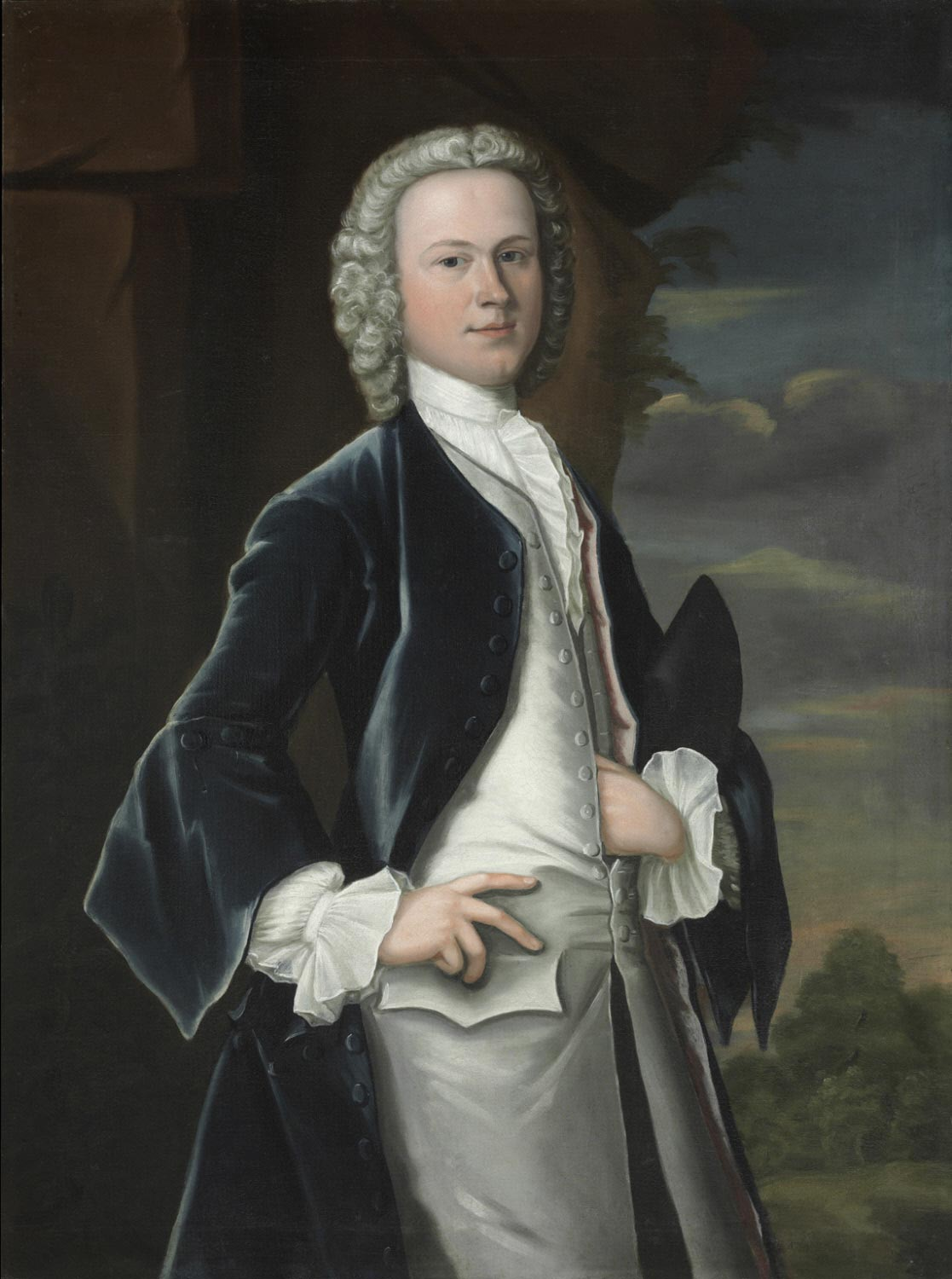 Portrait of Edward Shippen IV (1729-1806) Robert Feke, American, 1707 - 1752 Geography: Made in United States, North and Central America Date: 1750 Medium: Oil on canvas Dimensions: Framed: 53 3/4 x 41 1/2 x 2 1/2 inches (136.5 x 105.4 x 6.4 cm) 46 3/4 x 34 3/8 inches (118.7 x 87.3 cm) Curatorial Department: American Art Gallery 102, American Art, first floor (Flammer Gallery) Accession Number: 2004-119-1 Credit Line: Gift of Edward Shippen Willing and Delight Carter Willing, 2004